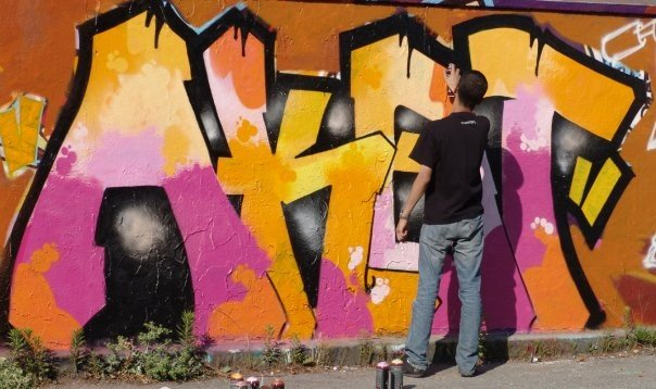 Aket Sniper